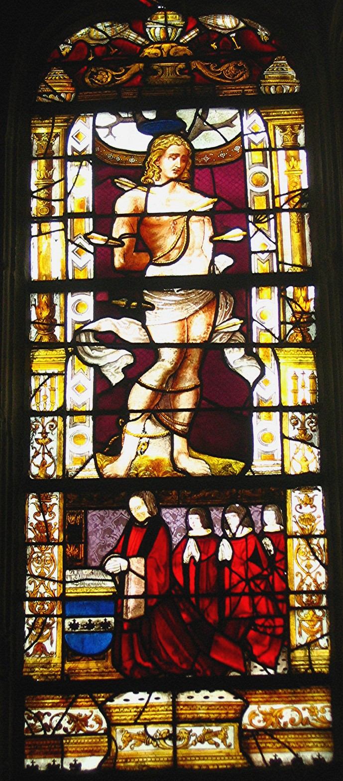 Les Andelys, church Notre Dame, stain glass, 16th century, Normandy.